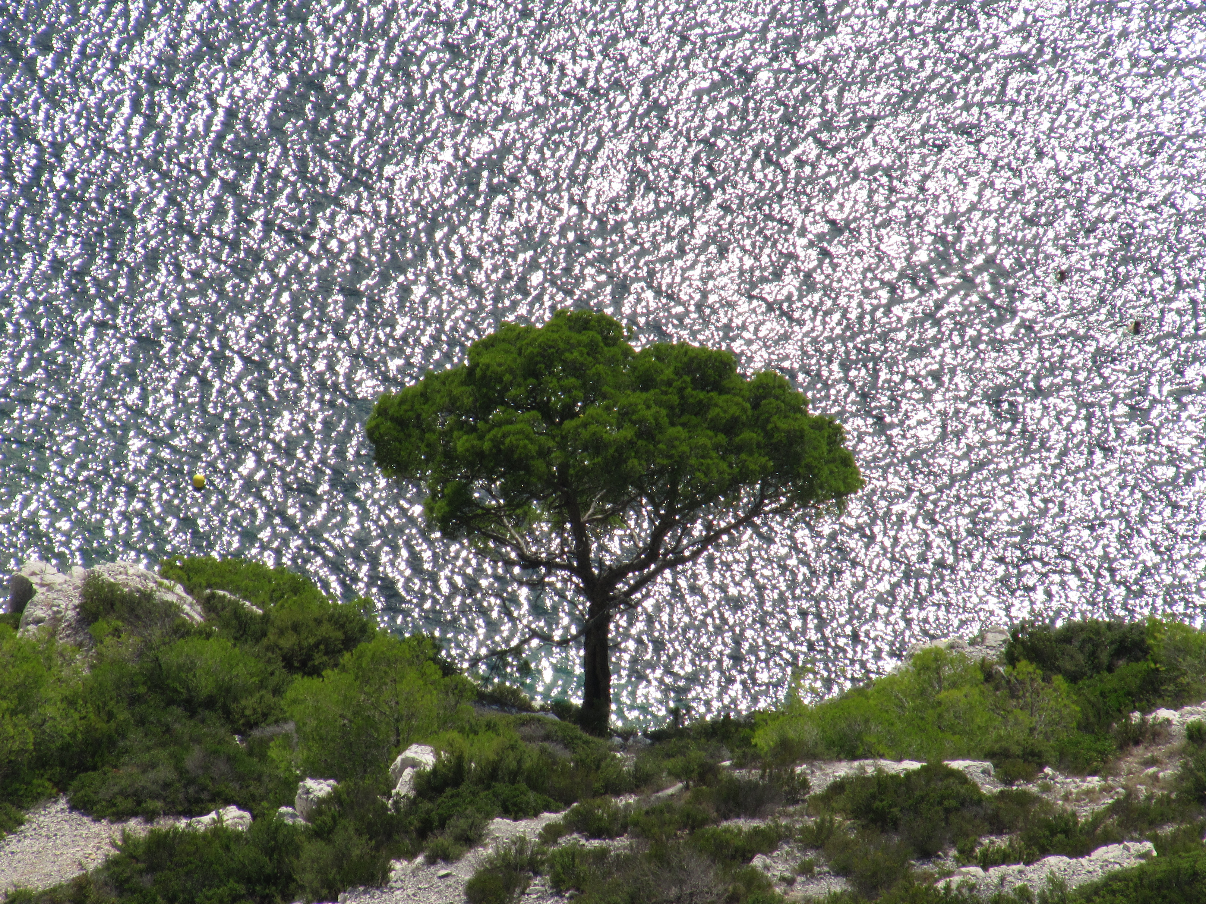 Pinus halepensis tree. Calanque de Morgiou - France.